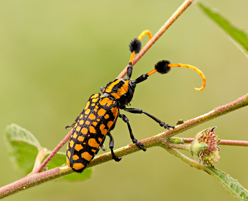 Aristobia approximator Nikon D700 Micro Nikkor 200/4 LAO D.P.R Vientian Province 29.11.2009 Family: Cerambycidae, The Longhorn Beetles